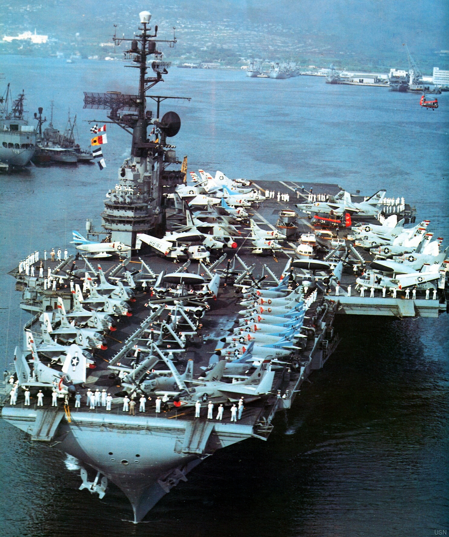 The U.S. Navy aircraft carrier USS Coral Sea (CVA-43) leaving Pearl Harbor (Hawaii, USA) in April 1963. Various aircraft of Attack Carrier Air Wing Fifeteen (CVW-15) are spotted on deck.